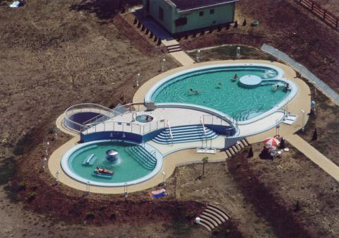 Bázakerettye, Zala County, Hungary